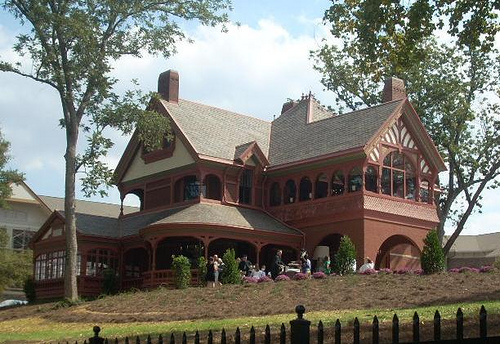 Ivy Hall, Richard Peters House in Atlanta, Ga., now part of SCAD